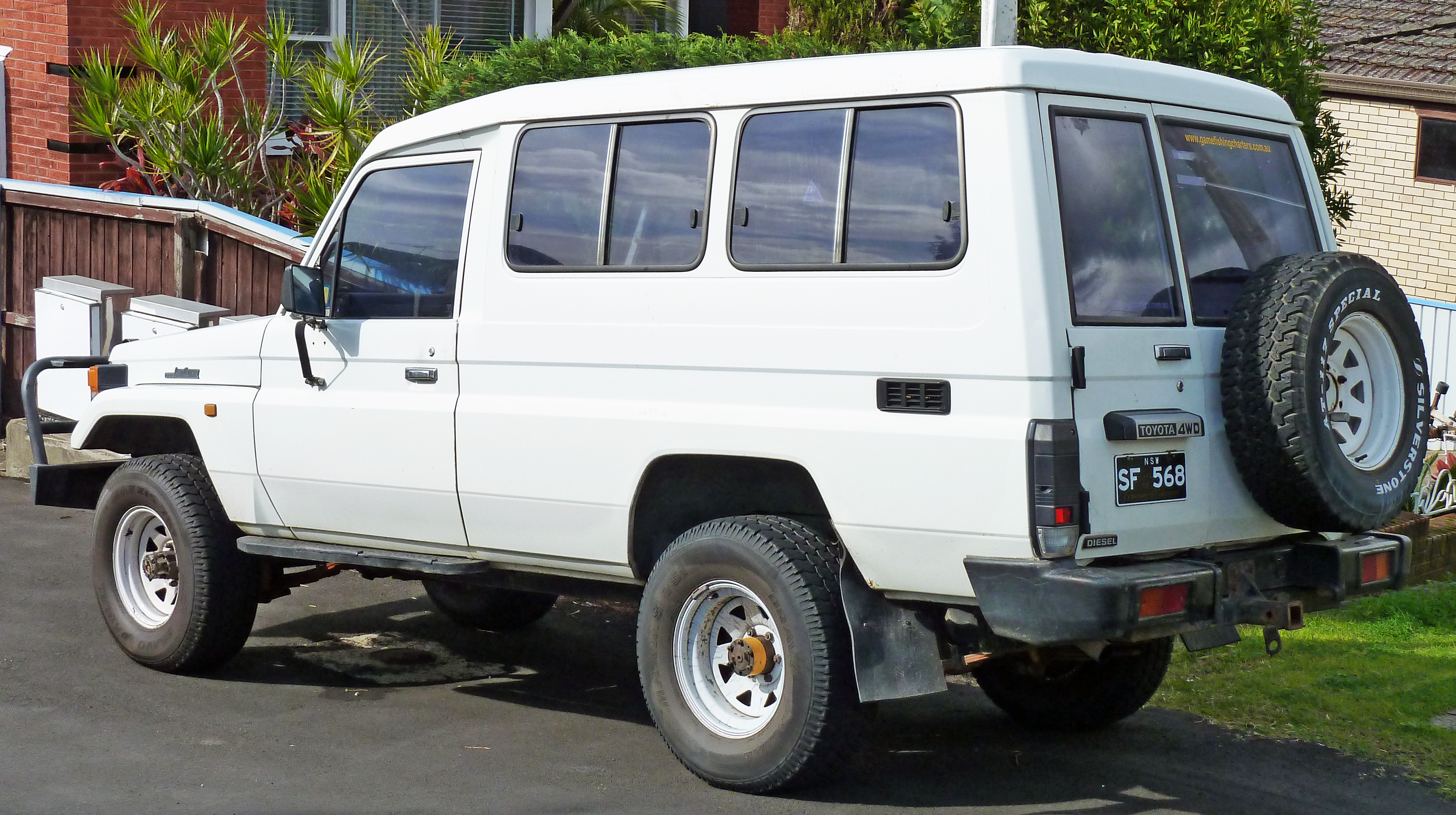 1991 Toyota Land Cruiser (HZJ75RV) 3-door wagon. Photographed in Sylvania, New South Wales, Australia.